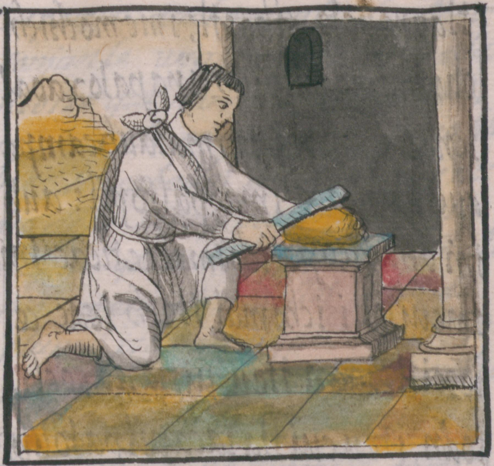 Florentine Codex Book IX Fo 54 Goldsmith measuring a gold article